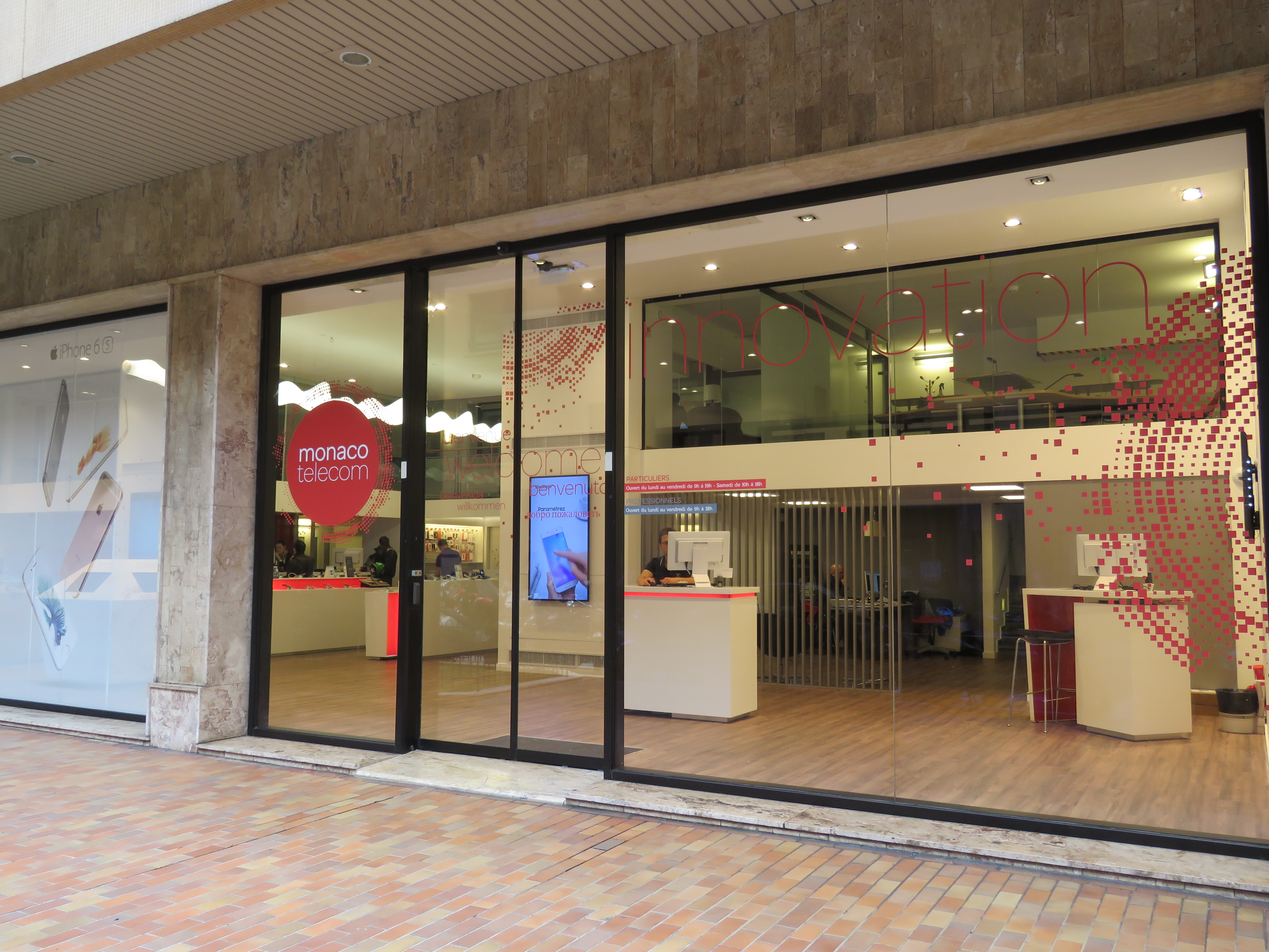 Rue Gabian - Boutique Monaco Telecom